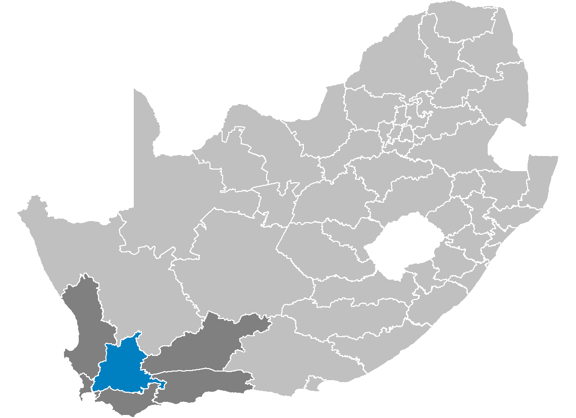 Map showing the Cape Winelands District Municipality higlighted within the Western Cape.